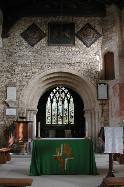 Church of England parish church of St James the Great, Hanslope, Buckinghamshire: looking east from the nave to the Norman chancel arch